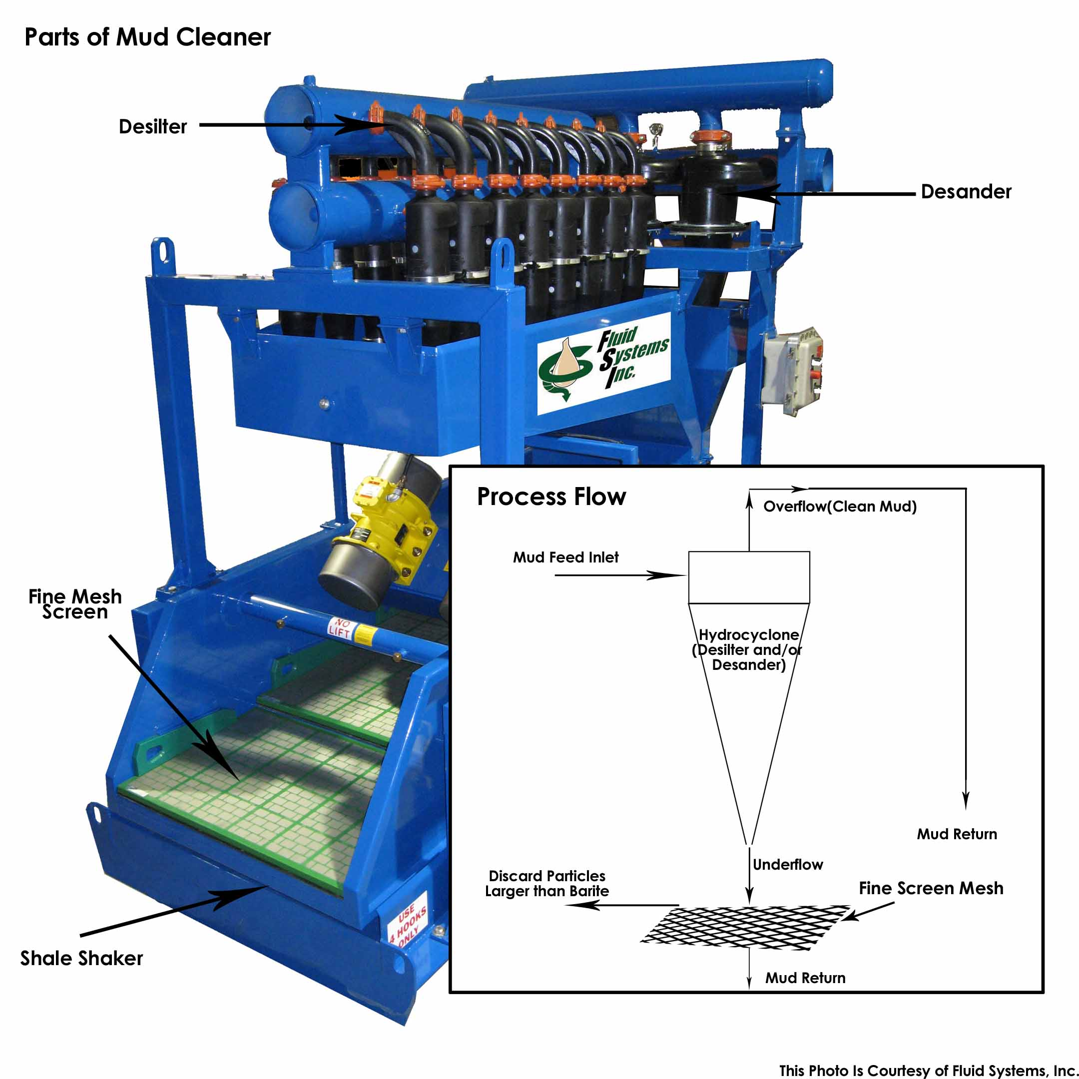 Mud Cleaner Parts and Process Flow